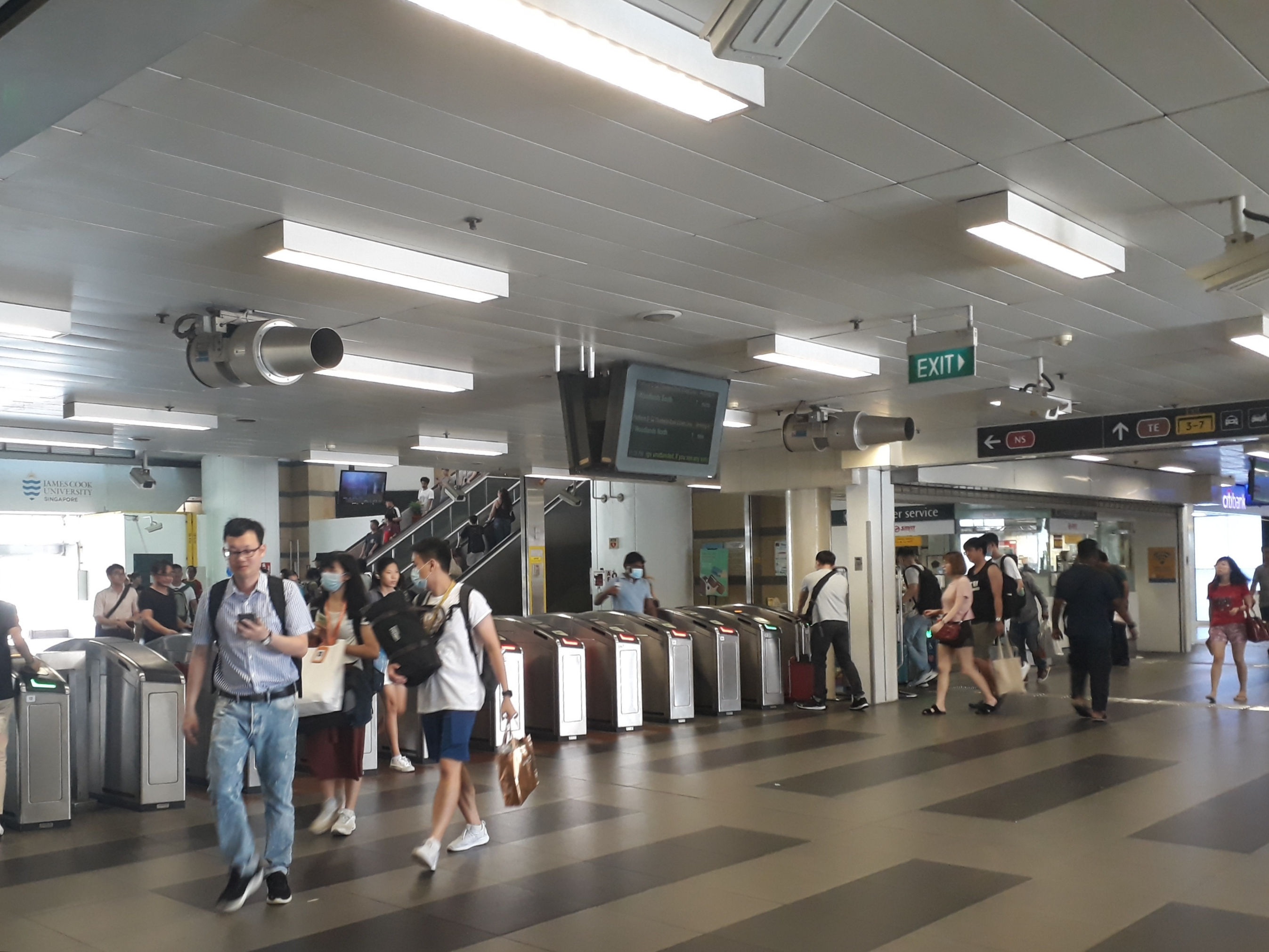 Concourse of Woodlands MRT